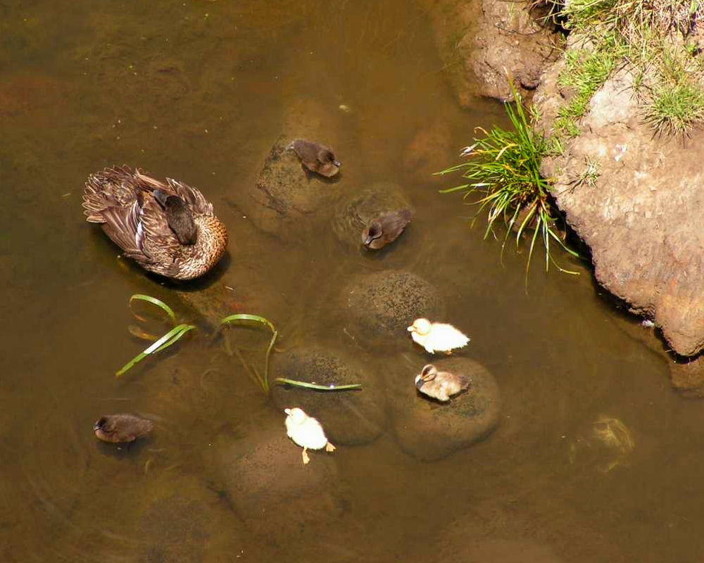 Chestnut Teal (Anas castanea), female with 6 ducklings, 2 albino, Tasmania, Australia